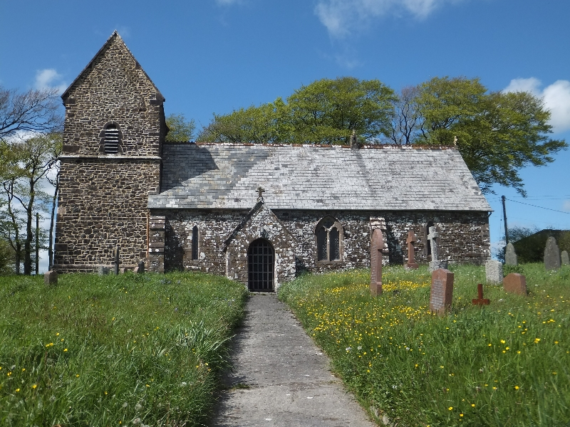 St Petroc's parish church, Hollacombe, Devon, seen from south-southeast